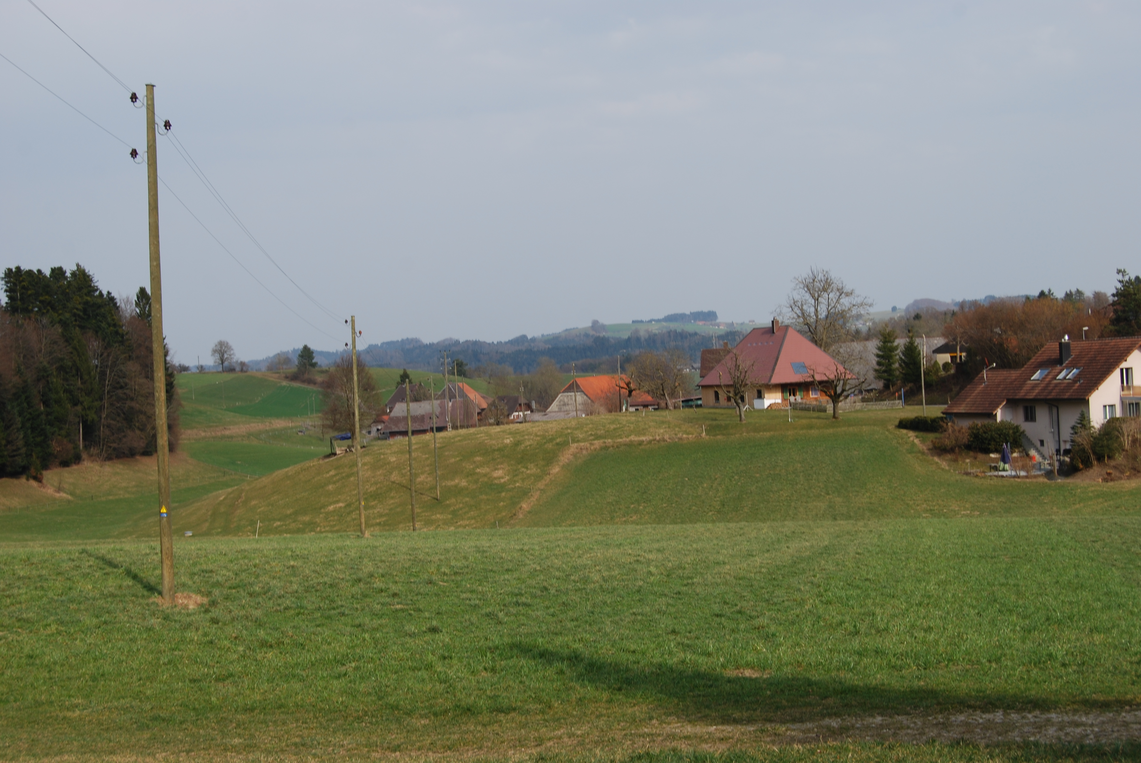 Busswil bei Melchnau, canton of Bern, SwitzerlandEsperanto: Busswil ĉe Melchnau, Kantono Berno, Svislando